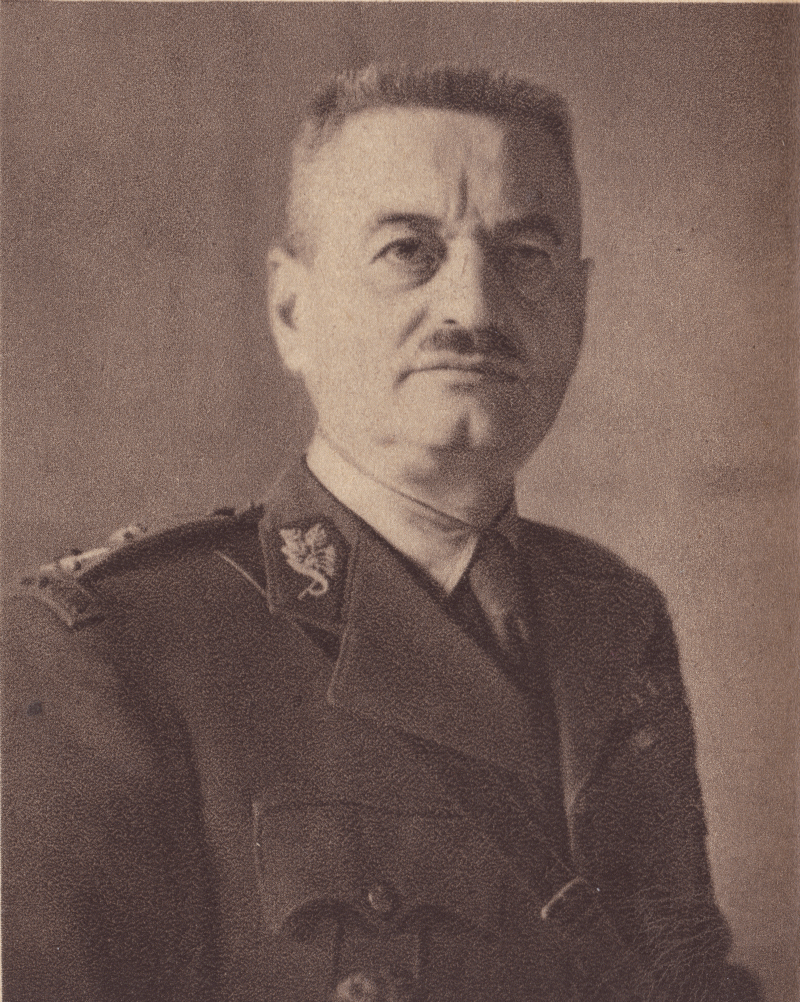 Bedřich Neumann (* 1891 - † 1964) was a Czechoslovak general, a member of the Czechoslovak legions in Russia, an important representative of Defence of the Nation. During WWII he occupied consequently a number of senior positions in the Czechoslovak armed forces in the West as well as in the exile headquarter of the Czechoslovak Army. After the Communist takeover in 1948 he had to leave to the second (political) exile (to the Great Britain). Photo before the year of 1945.